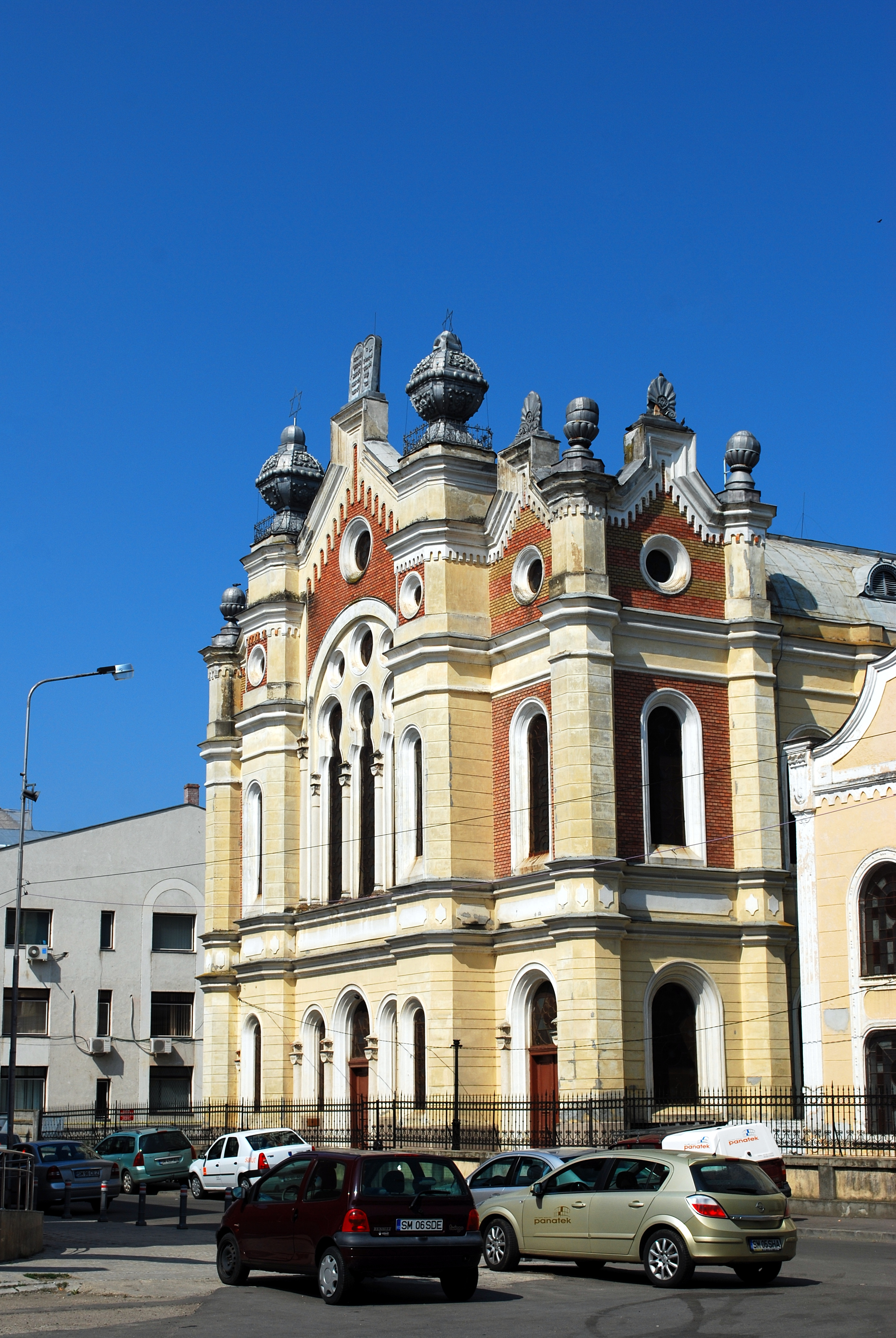 Synagogue in Satu Mare, Romania